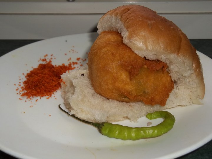 Vada Paav, preferred main course affordable and available for common man in Mumbai and surrounding. This is Mumbai version of Burger. The taste of Batata Vada (Potato filling) varies from stall to stall and delicious to eat.